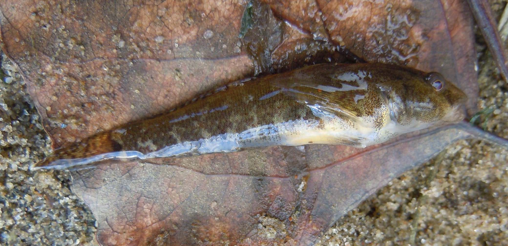 Caspian tubenose goby (Proterorhinus semipellucidus) from the Volga River near Volgograd, Russia